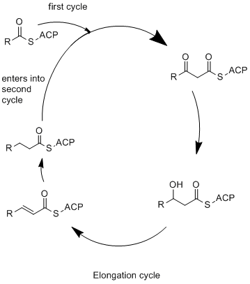 Yeast fatty acid synthase elongation cycle